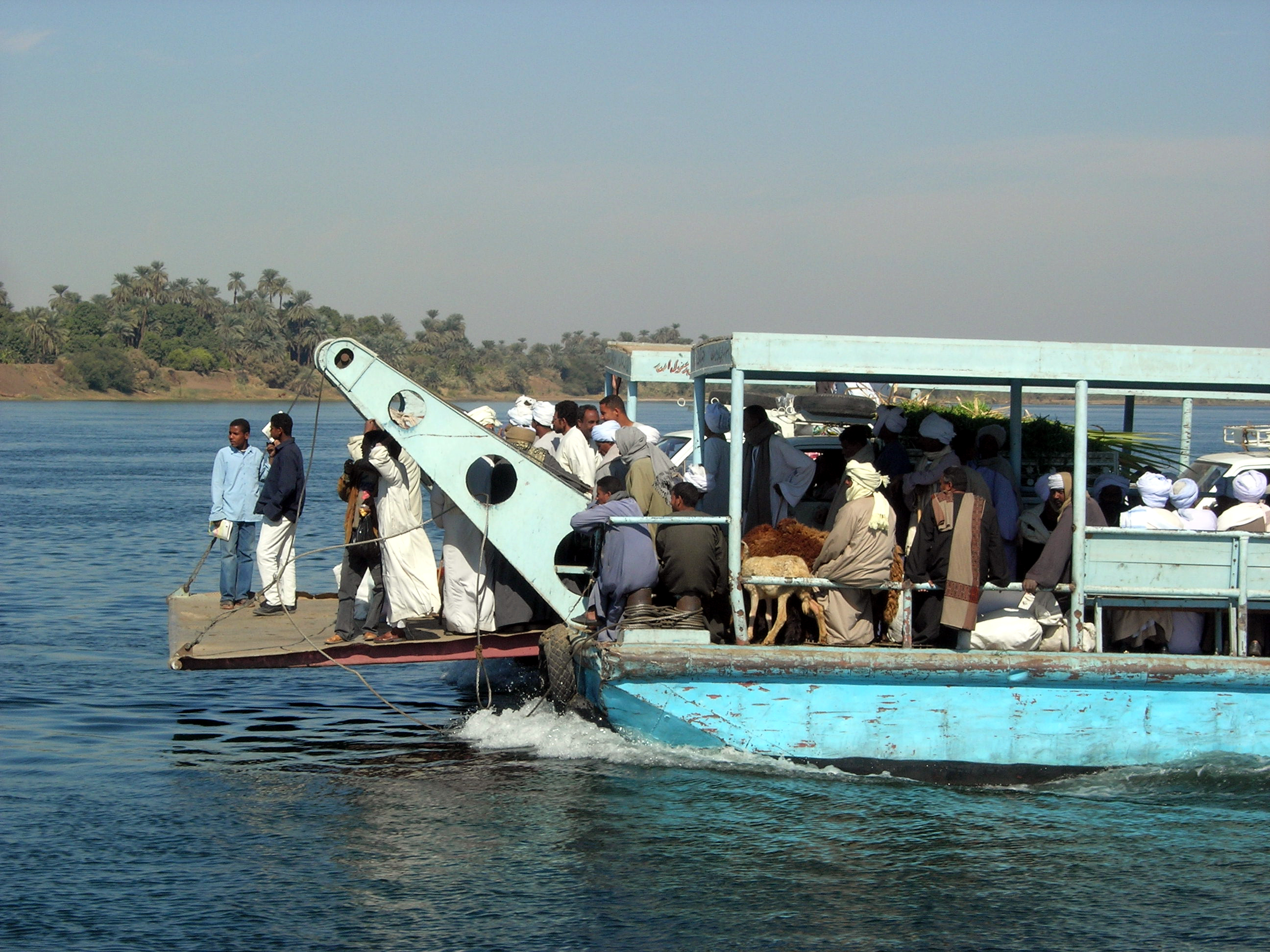 Description =Traversier sur le Nil Source =Photo taken by Remi Jouan Date =Decembre 2006 Author =Remi Jouan